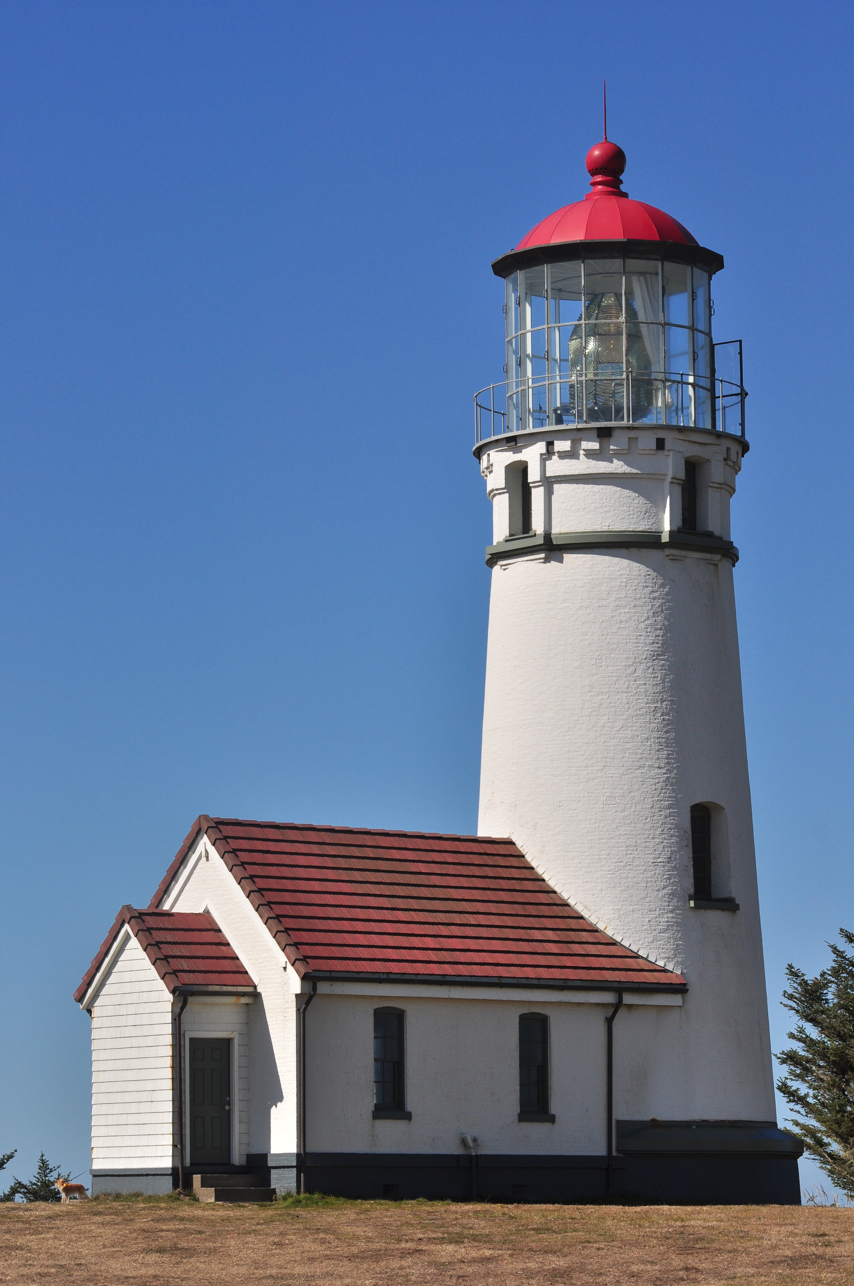 Cape Blanco Light, Sixes, Oregon, U.S., listed on the National Register of Historic Places.